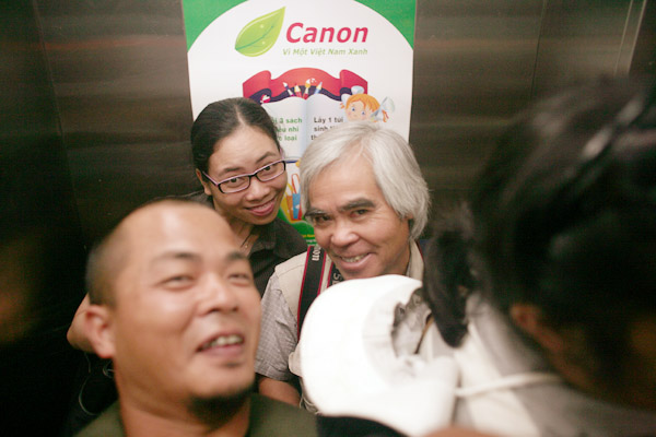 Mr. Nick Ut with his students (IMMF 2010 - Hanoi)